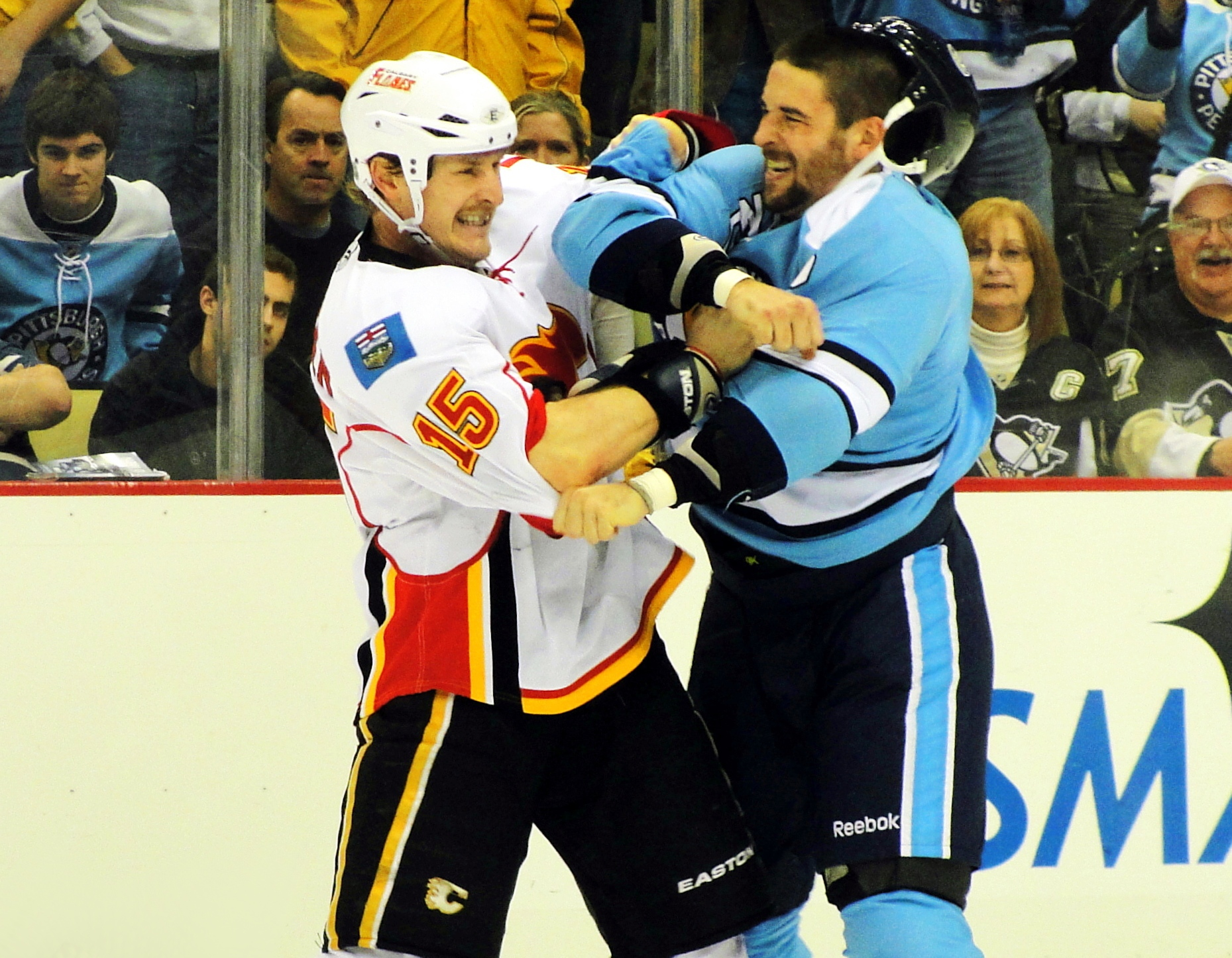 Deryk Engelland takes on Tim Jackman November 27, 2010 in a game between the Pittsburgh Penguins and Calgary Flames at Consol Energy Center in Pittsburgh, PA.